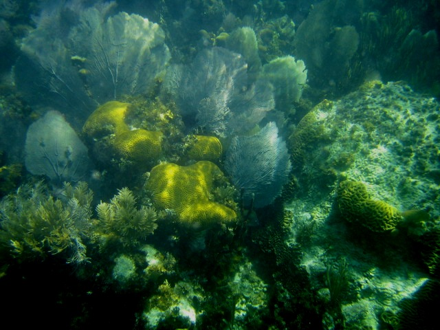 Underwater Scenery at Southwater Cay